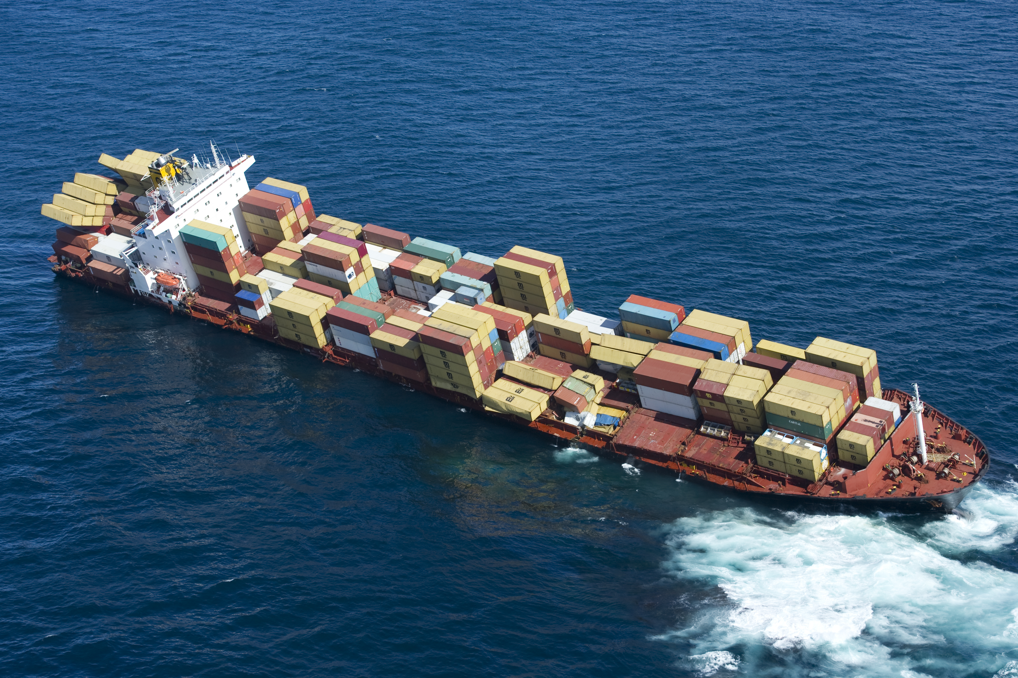 Grounded ship Rena on the Astrolabe reef.